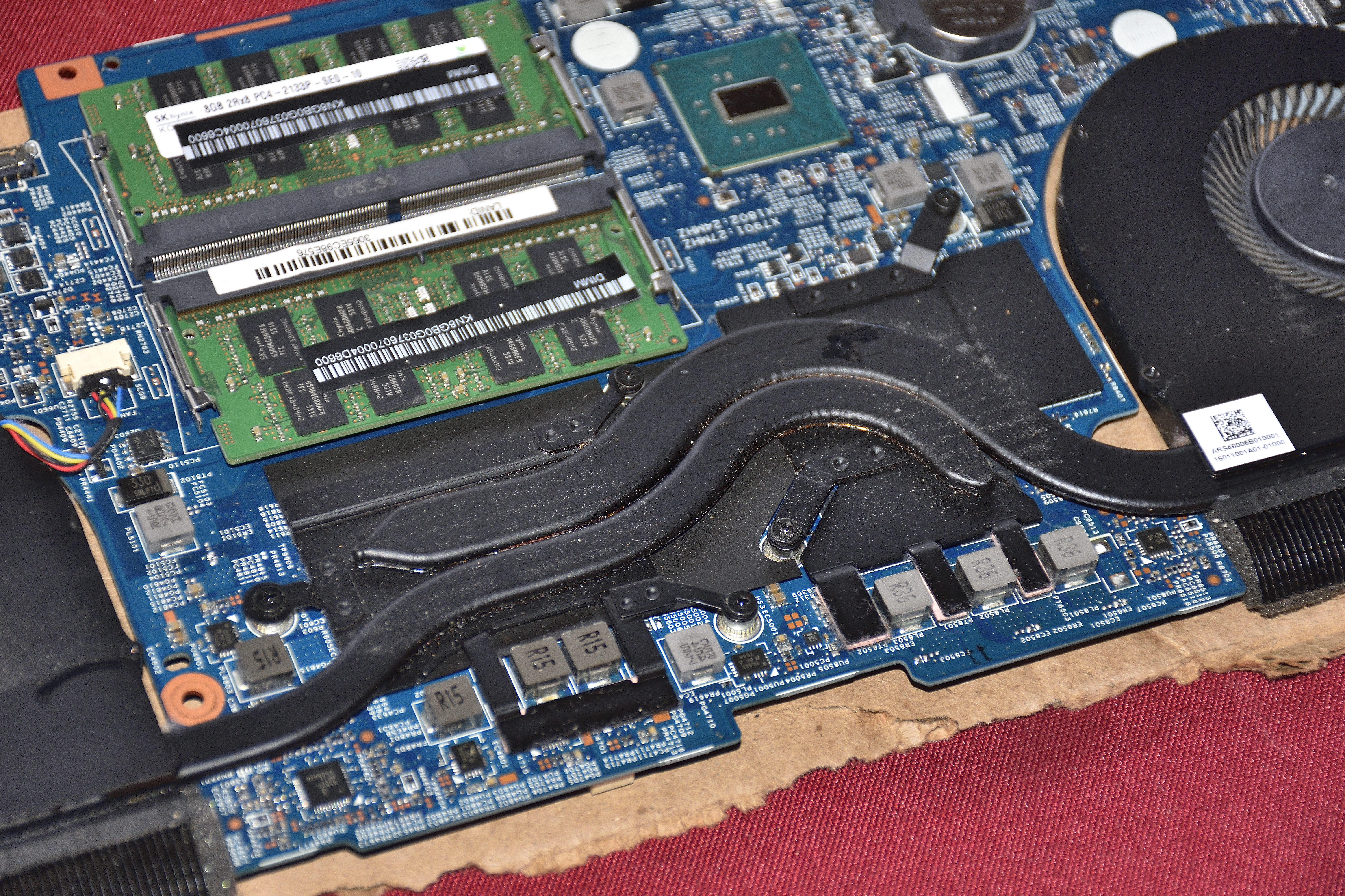 Typical heatpipe configuration within a consumer laptop. The heatpipes conduct waste heat away from the CPU, GPU and voltage regulators, and transfers it to a fin-stack that acts as a fluid-to-fluid heat exchanger.